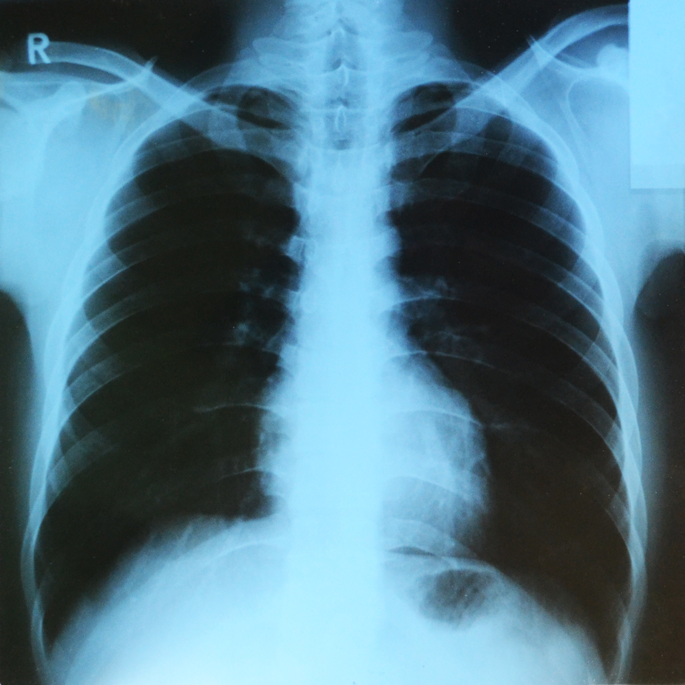 X-ray